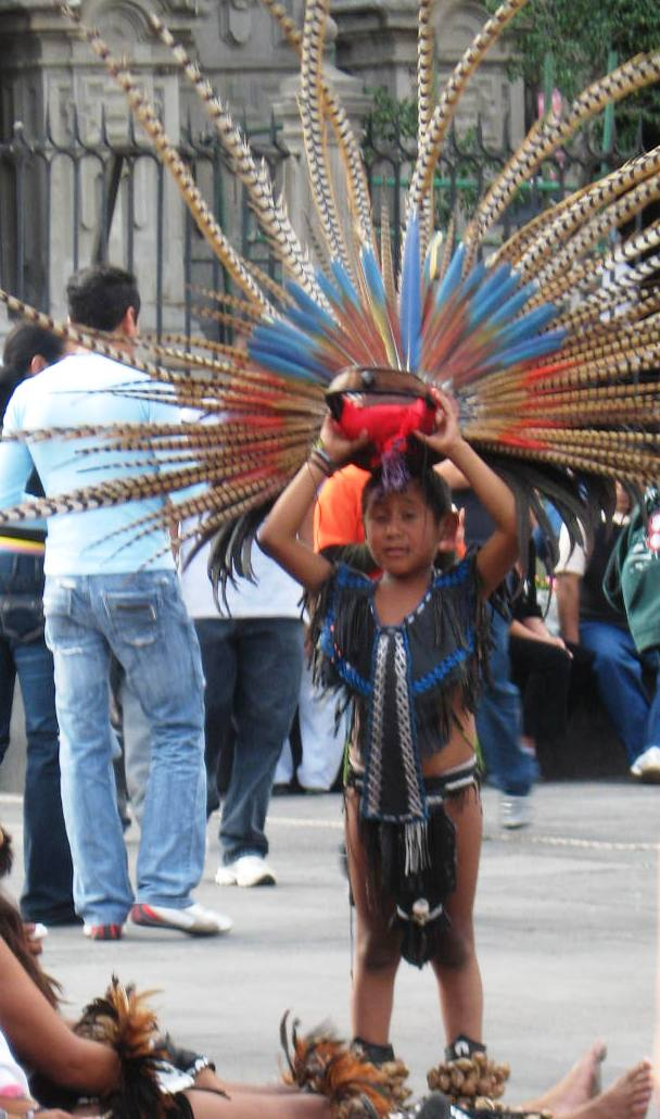 BOY WITH AZTEC HEADDRESS AT THE ZOCALO NEXT TO THE CATHEDRAL IN MEXICO CITY